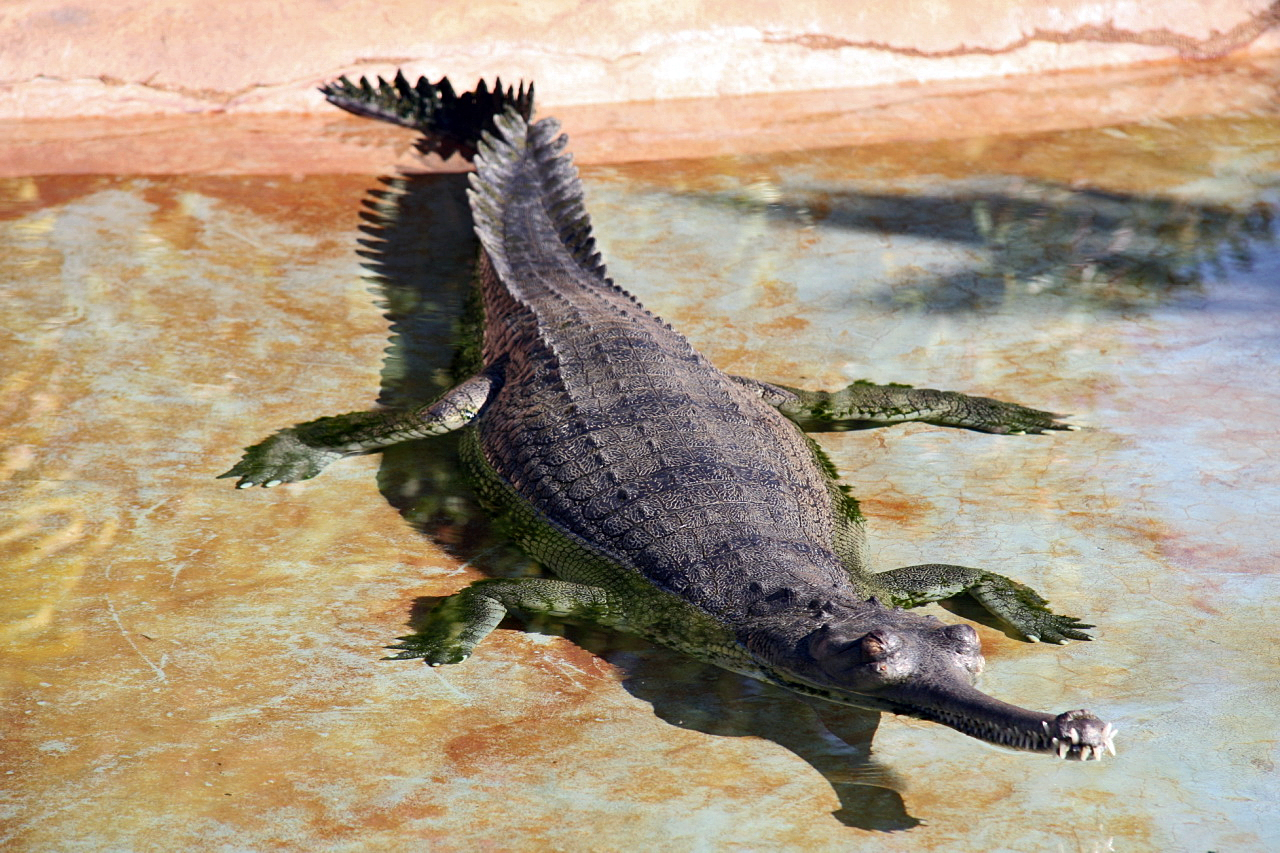 The Gharial is uniformly dark olive-gray with a pale yellow belly. Juveniles have dark spots and cross bands against a light background. Gharials have an extremely elongated snout. The teeth are needle-like and the eyes green frosted with back. A large male can reach 23 feet in length, and a female 15 feet. Gharials, being the most aquatic of all crocodilians, are awkward out of water mainly due to their short stumpy legs. The adult male develops a pot-like structure on the end of the snout, giving the gharial its name from "ghara" -- Hindi for earthen pot. This nose knob is used to produce a bussing noise that repels rival males and serves as an audible warning system.